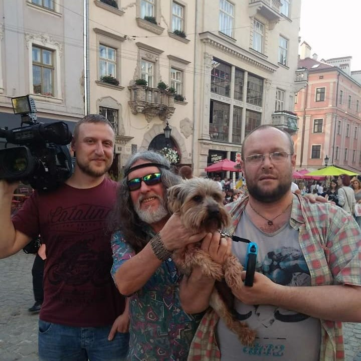 Лесной зі своїм улюбленцем на зйомках